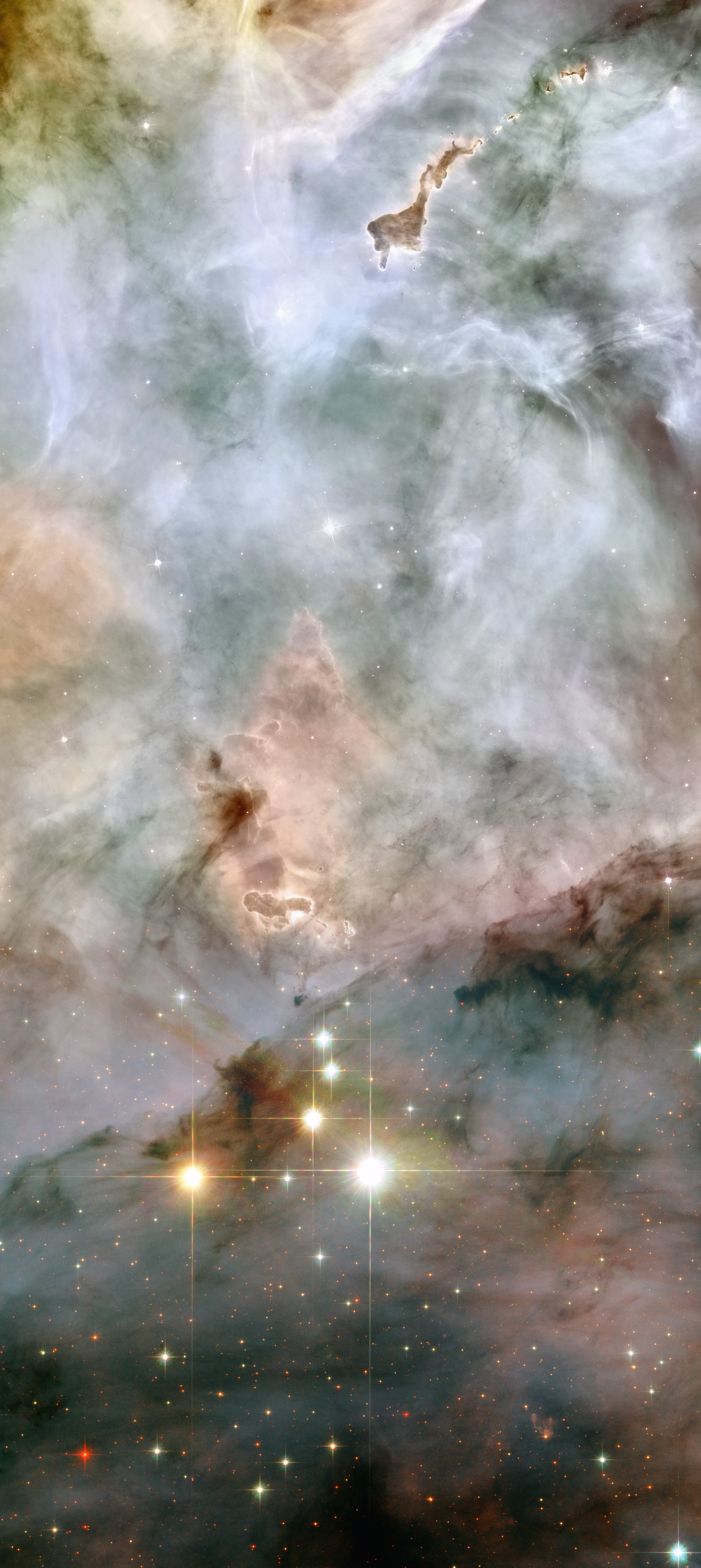 WR 25 and Tr16-244, at the bottom of the image, are located within the open cluster Trumpler 16. This cluster is embedded within the Carina Nebula, an immense cauldron of gas and dust that lies approximately 7500 light-years from Earth in the constellation of Carina, the Keel. At the top of the image, a peculiar nebula with the shape of a "defiant" finger points towards WR25 and Tr16-244.